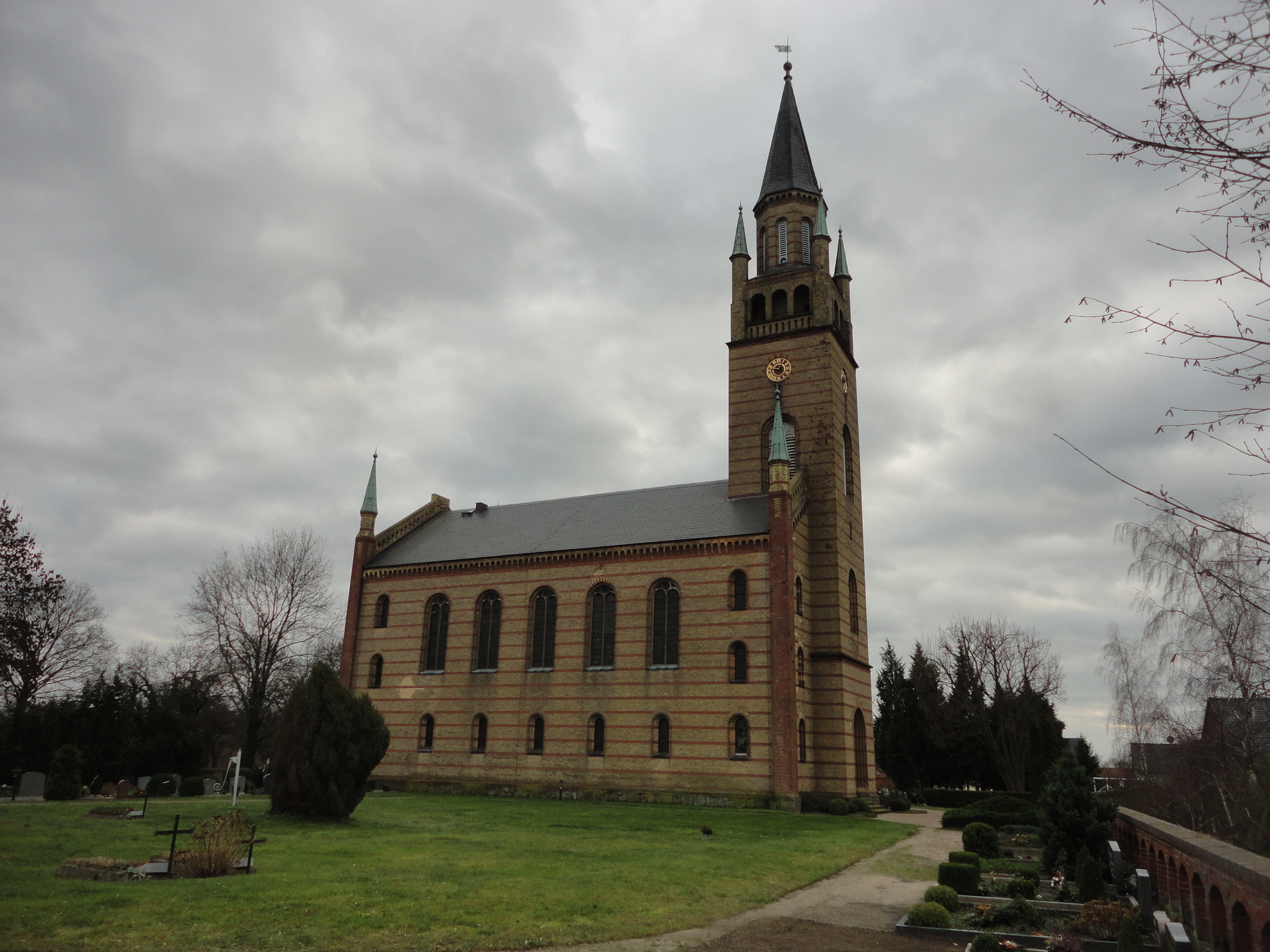 North-western view of Langen church, Fehrbellin municipality, Ostprignitz-Ruppin district, Brandenburg state, Germany